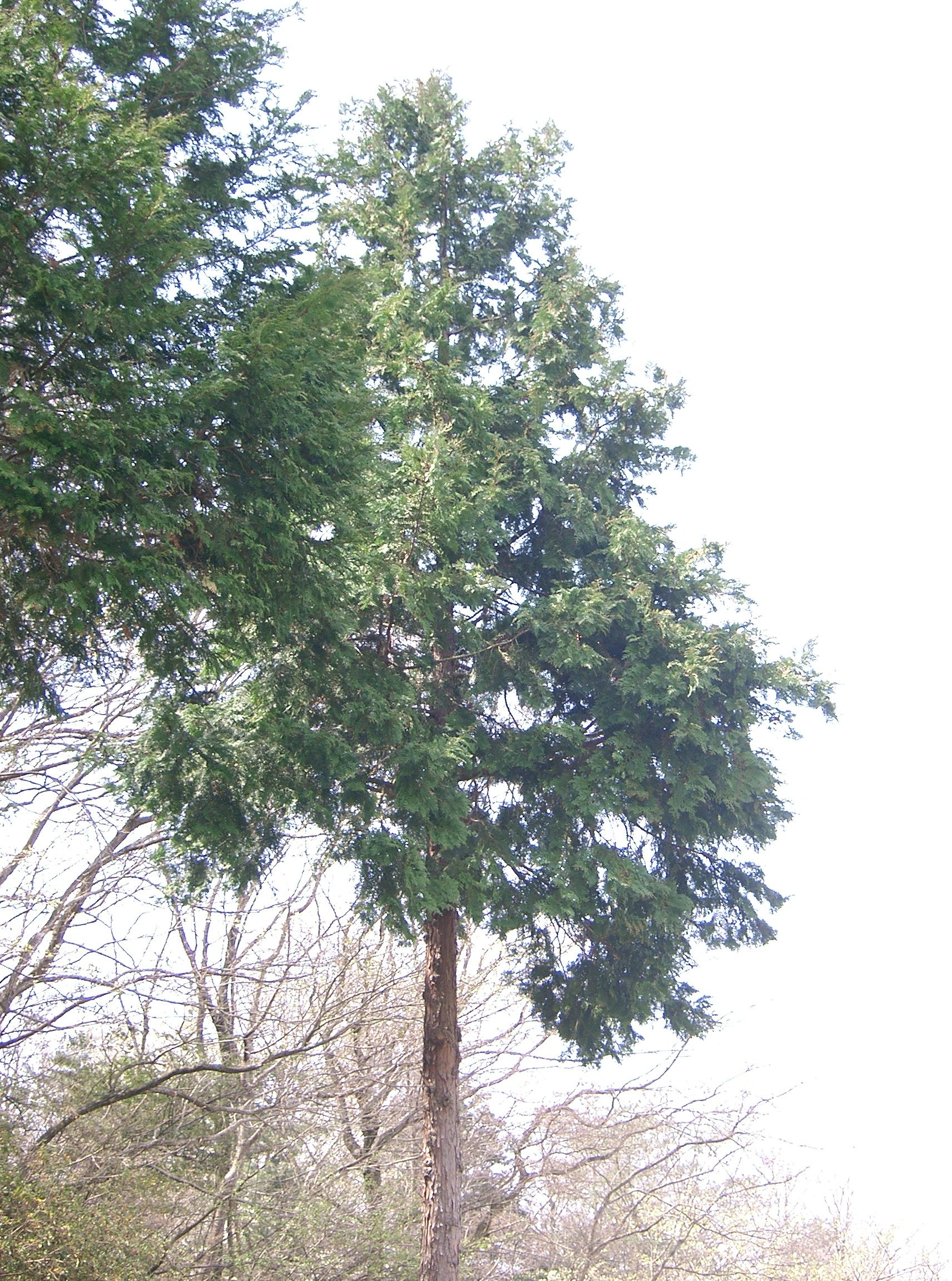 Chamaecyparis obtusa